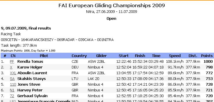 Part of the score sheet from Day 9 of the 2009 European Gliding Chapiomships